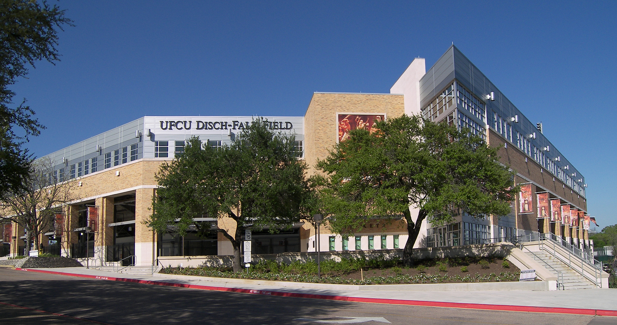 The front facade of UFCU Disch-Falk Field in Austin, Texas, United States after completion of the 2005 renovation project.